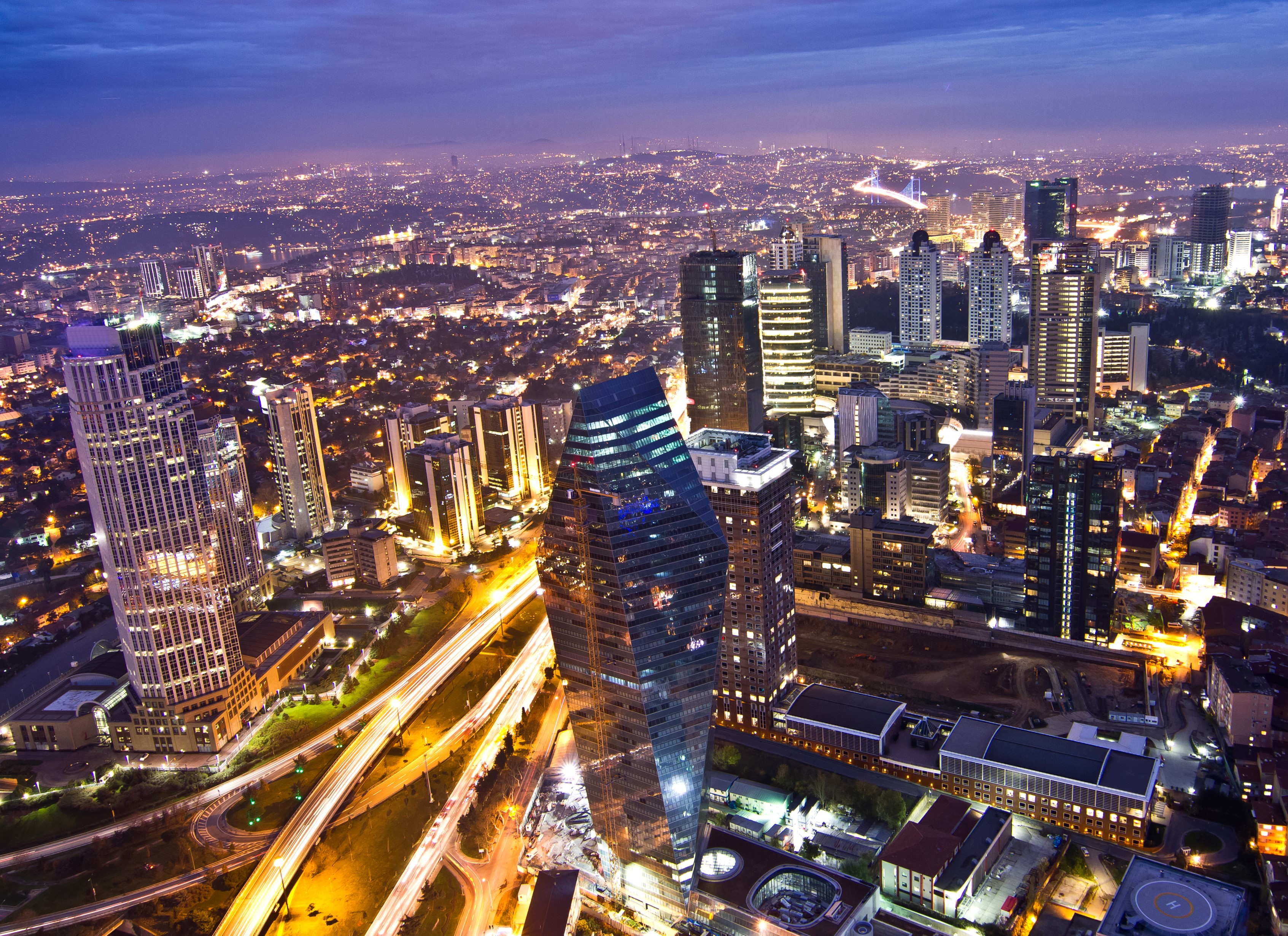 Levent business district in Istanbul, as seen from the observation deck of Istanbul Sapphire.